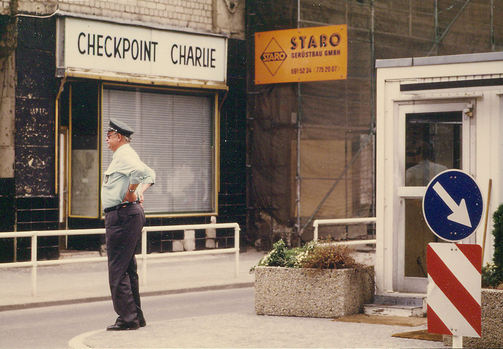 Checkpoint Charlie in West Berlin August 1986. Photograph by Nancy Wong